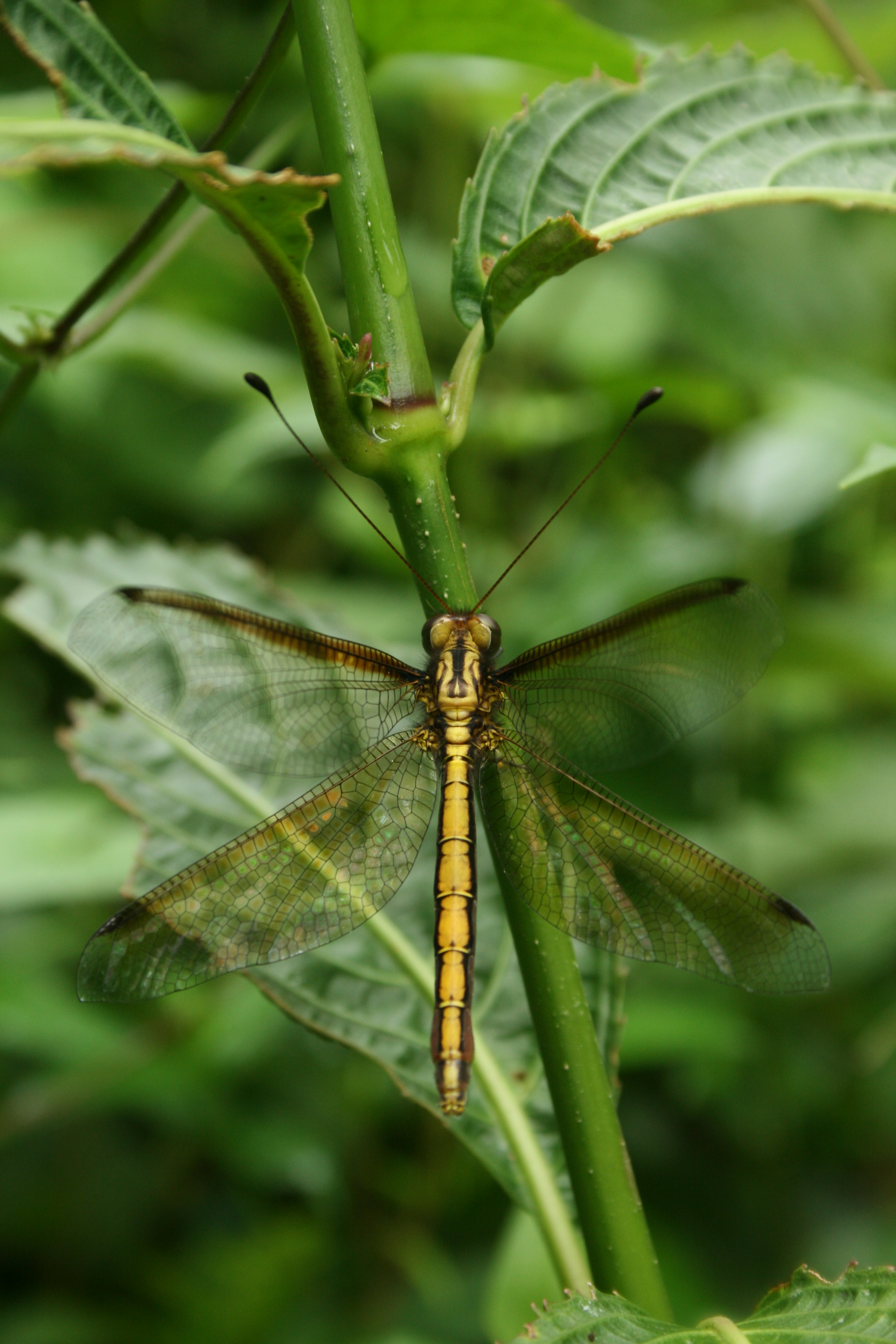 Owlfly (Ascalaphidae) from Assam